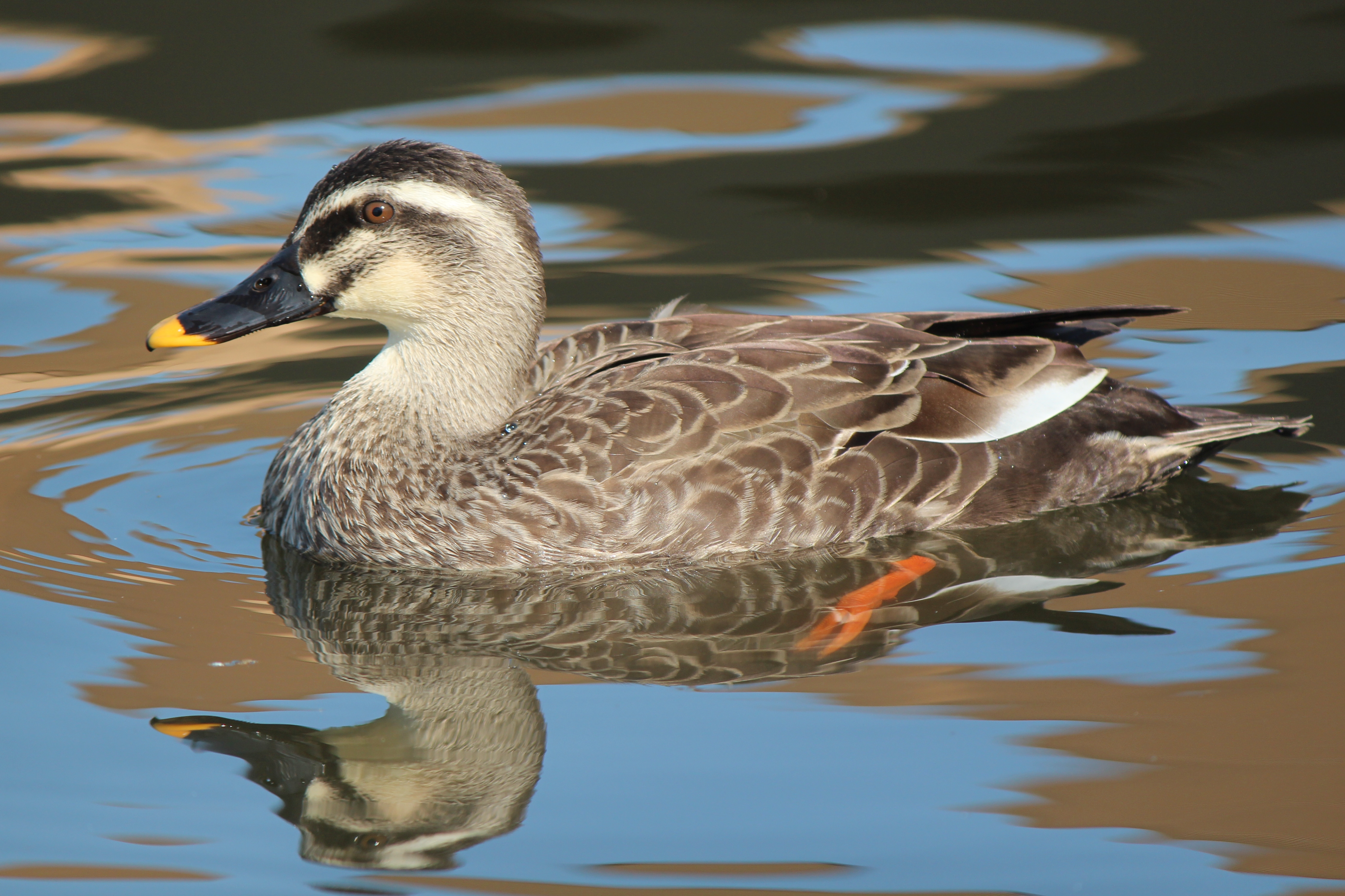 Anas zonorhyncha (Spot-billed Duck), swimming in the pond in Japan.